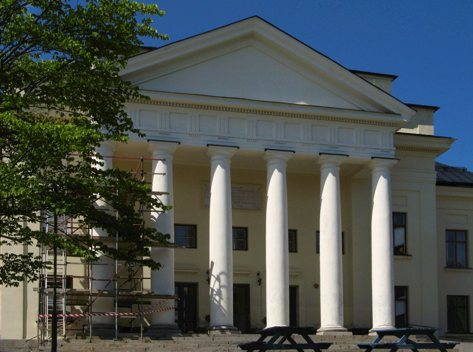 Cassels Donation, Grängesberg, Sweden